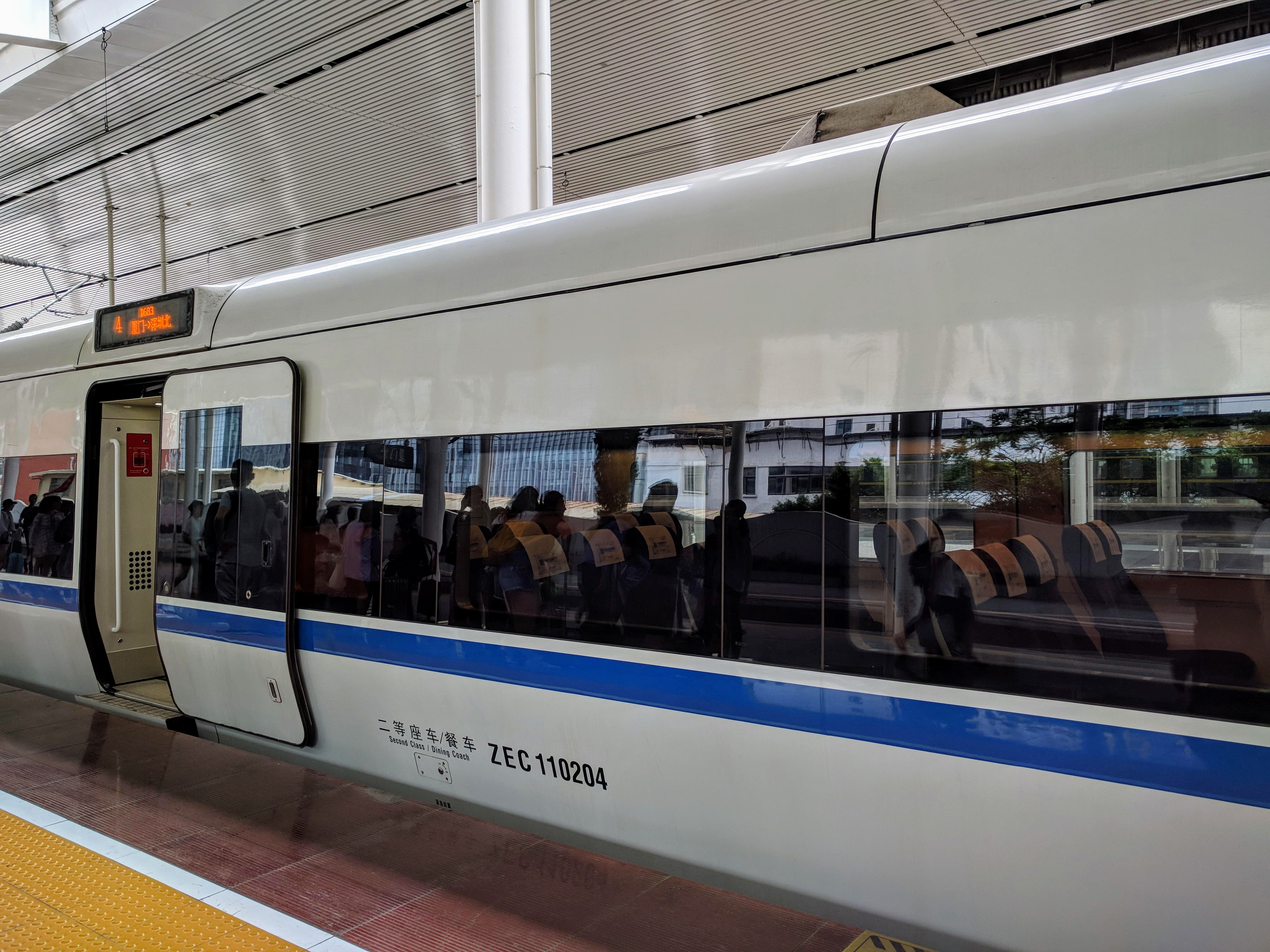 CRH ZEC 110204